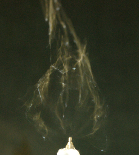 Normal photographic image.